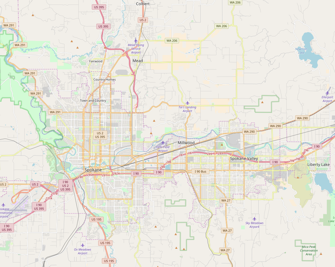 OSM map of the greater Spokane area.